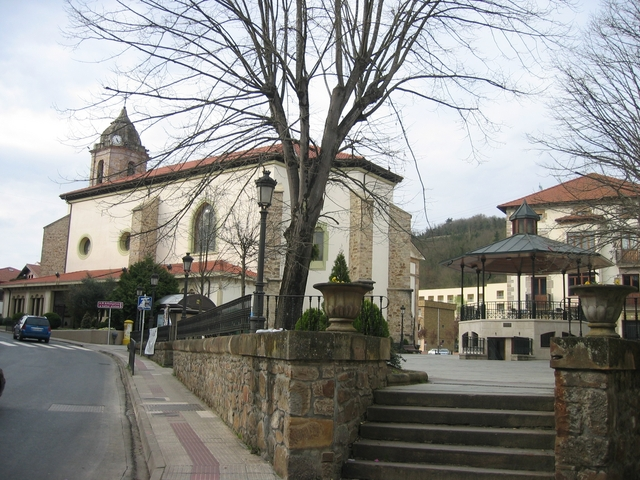 Church of St. Michael in Zalla (Biscay, Spain)